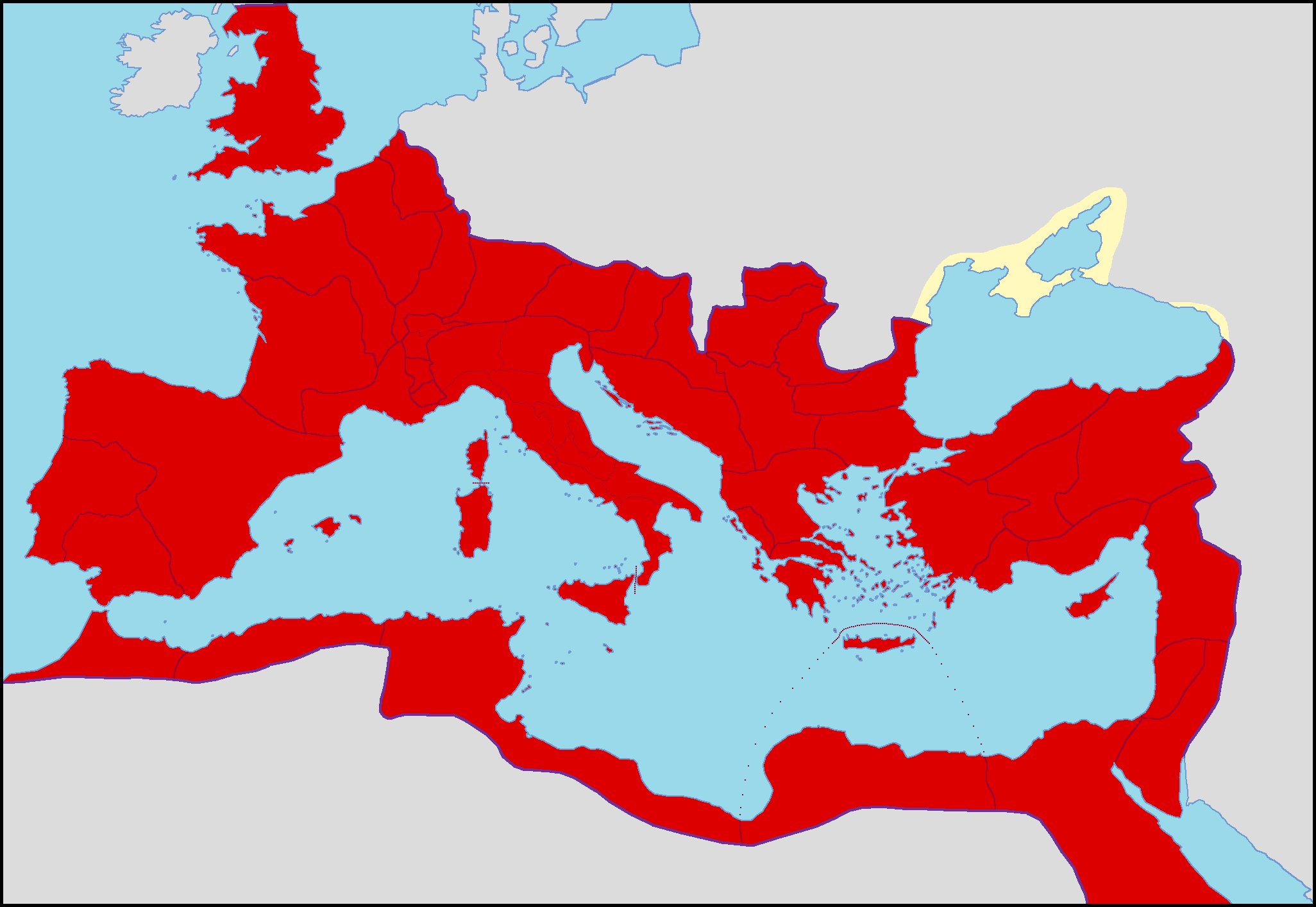 Map of the Roman Empire in 150 AD